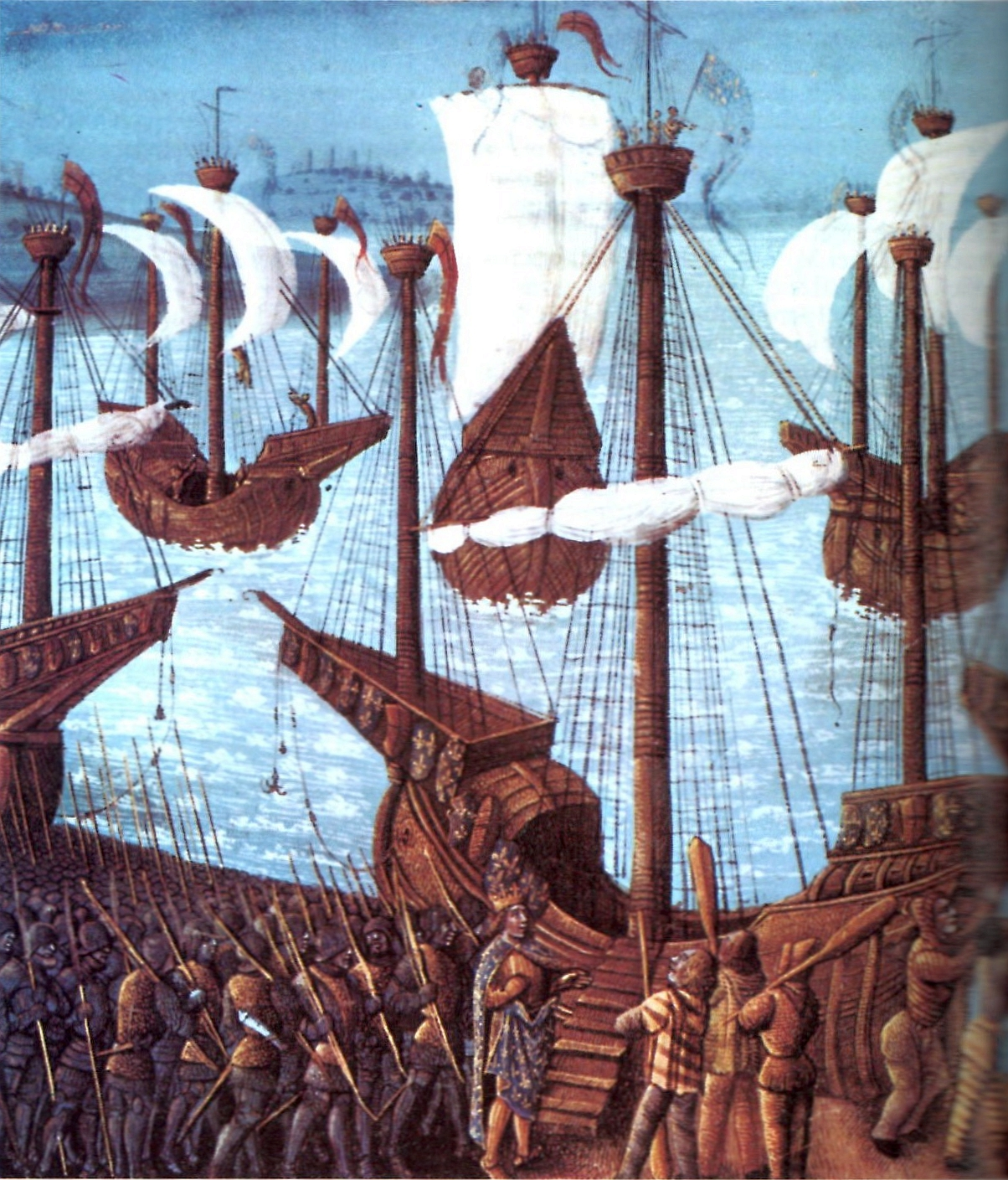 Embarquement of King Philipp II of France for the Third Crusade (1190) Einschiffung des französischen Königs Philipp II. zum Dritten Kreuzzug (1190)